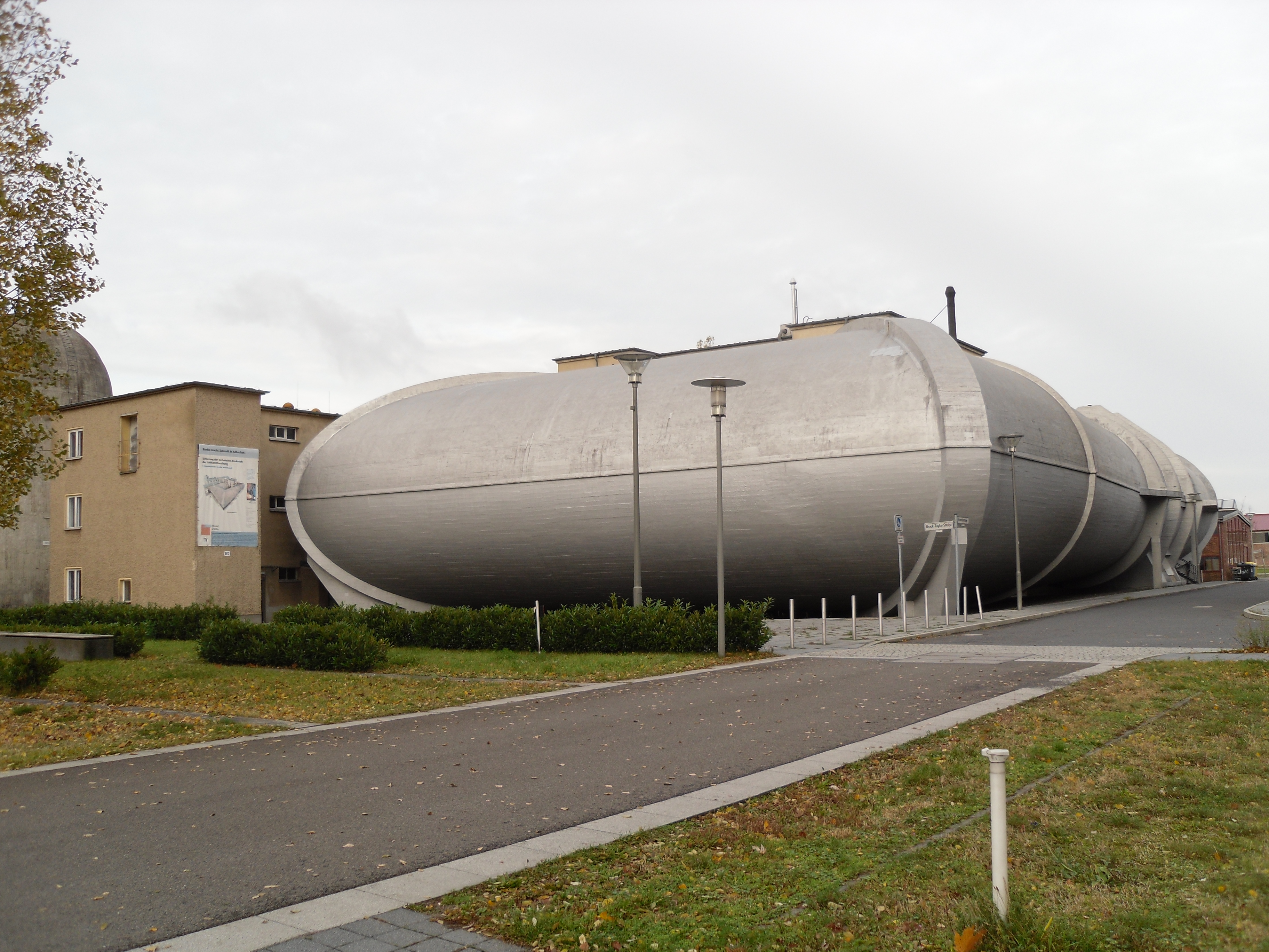 Big wind channel